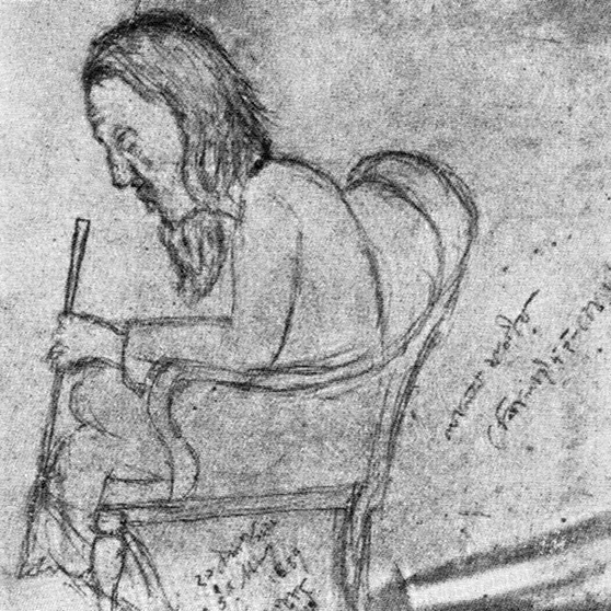 This is only portrait of Lalon made during Lalon's lifetime, sketched on a boat at River Padma.